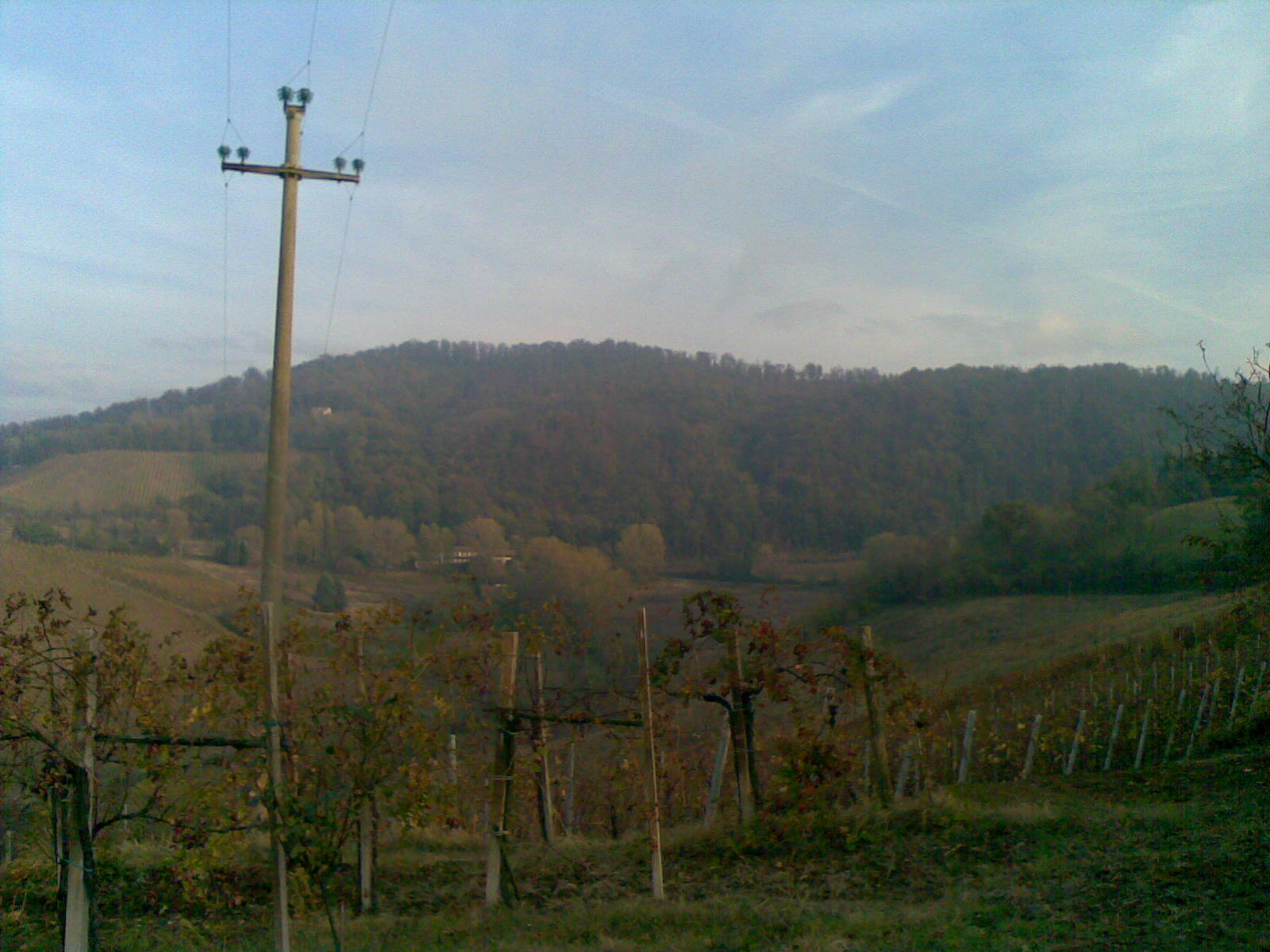 A photo of Mount Ceresino taken from San Biagio